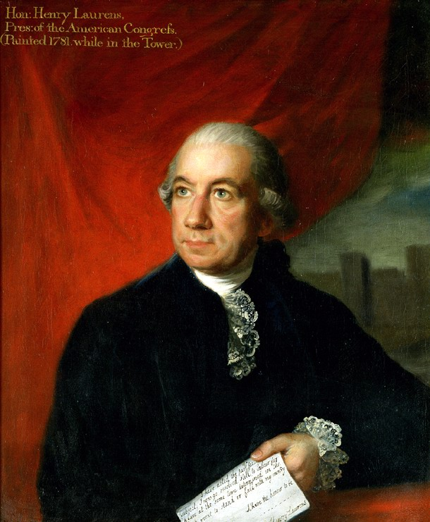 Inscription (upper left corner): Hon: Henry Laurens, / Pres: of the American Congress. / (Painted 1781. while in the Tower.) Cat. no. 31.00010.000